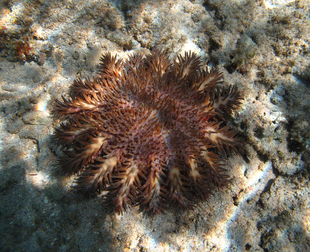 Acanthaster planci "mauritiensis" seen at la Réunion.